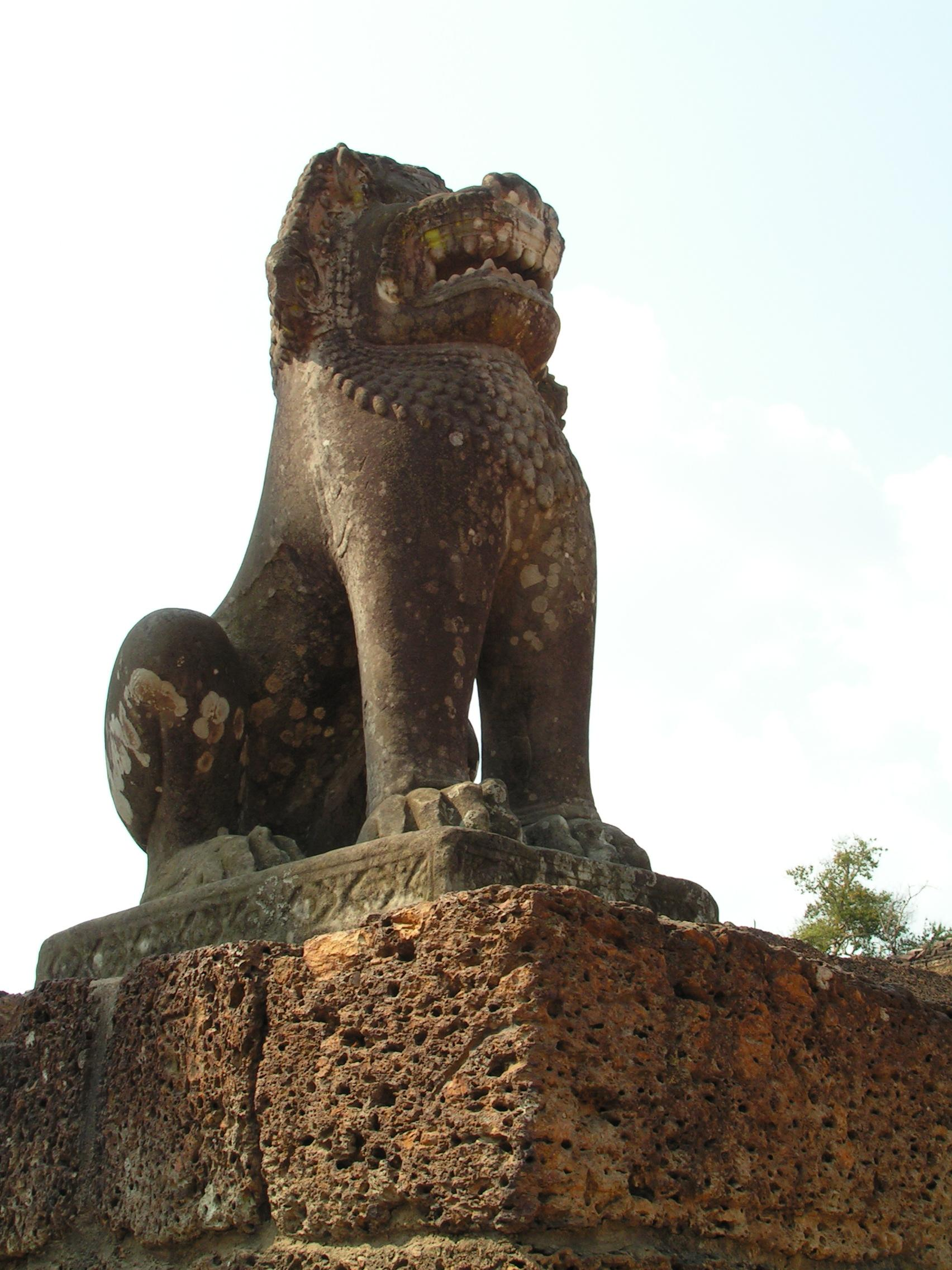 Island temple Eastern Mebon at Angkor: guardian lionBeast Sculpture